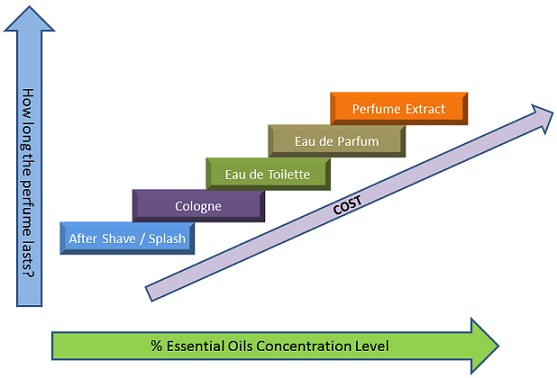 This chart shows the typical relationship between price of perfume, its longevity and the concentration of essential oils.